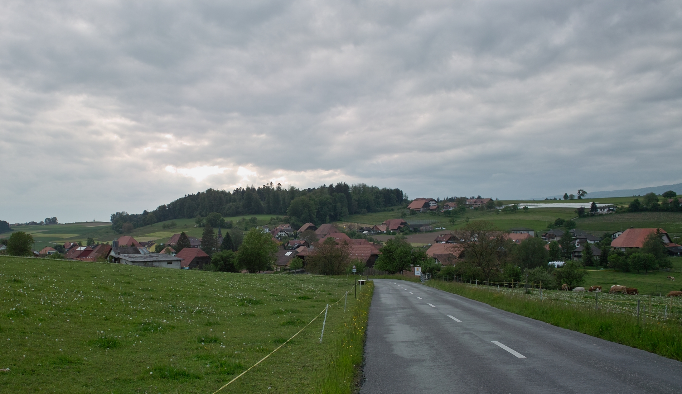 View of the village of Bibern, canton of Solothurn, Switzerland.